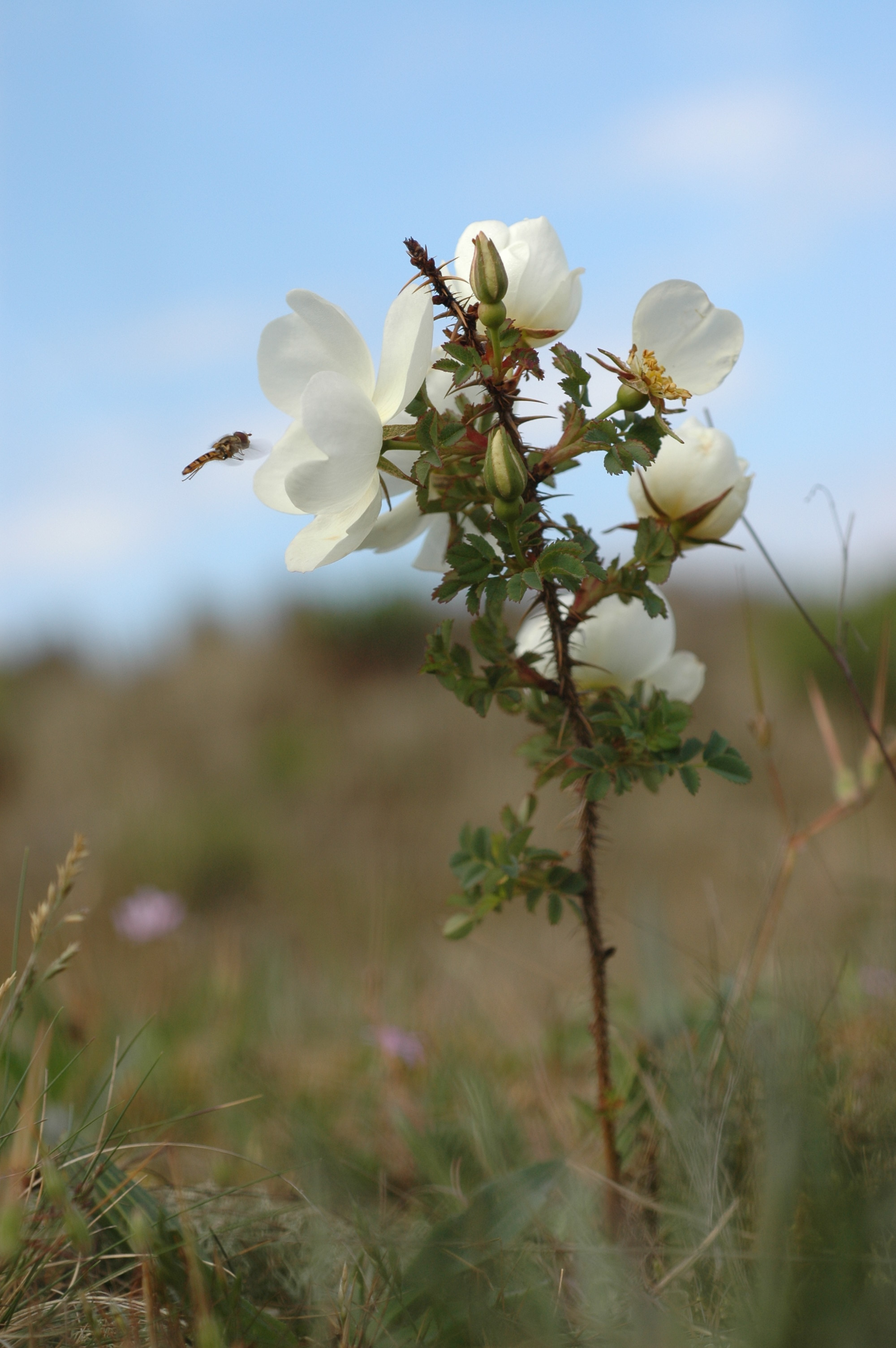 Rosa Spinosissima with hoverfly, in the dunes at Schoorl, The Netherlands